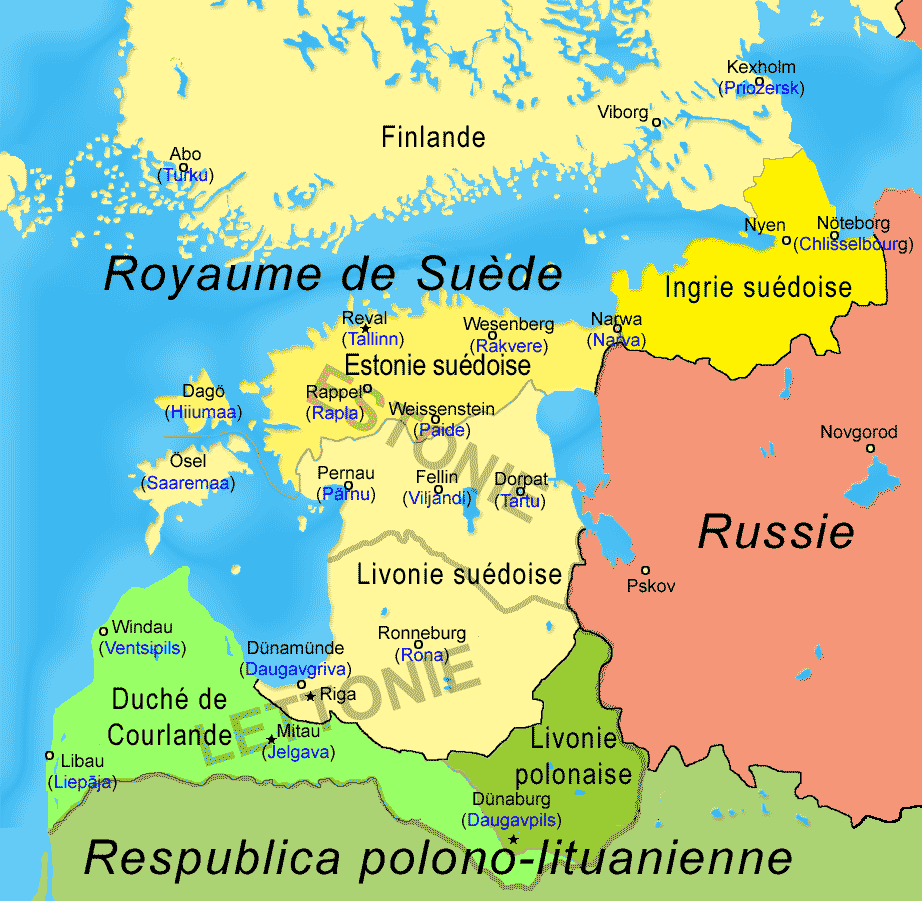 The Baltic provinces of the Swedish Empire in the 17th century, with English country names and place names that were used at the time. A Swedish version also exists: Sw BalticProv sv.png